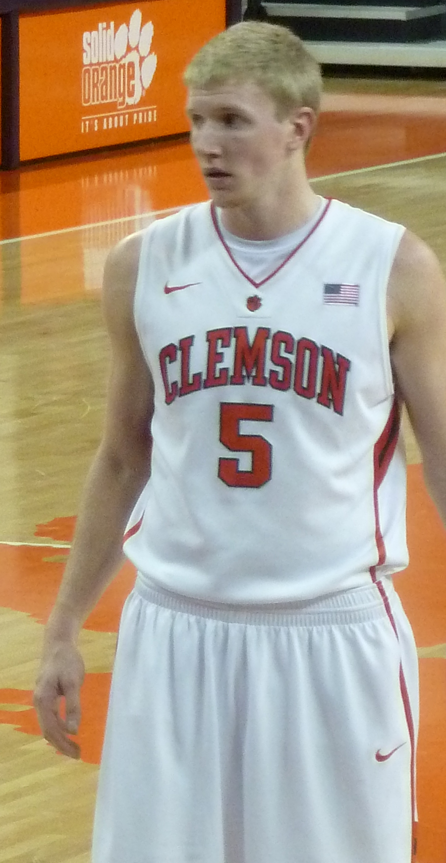 A picture of Tanner Smith taken after the last game of his career at Clemson.